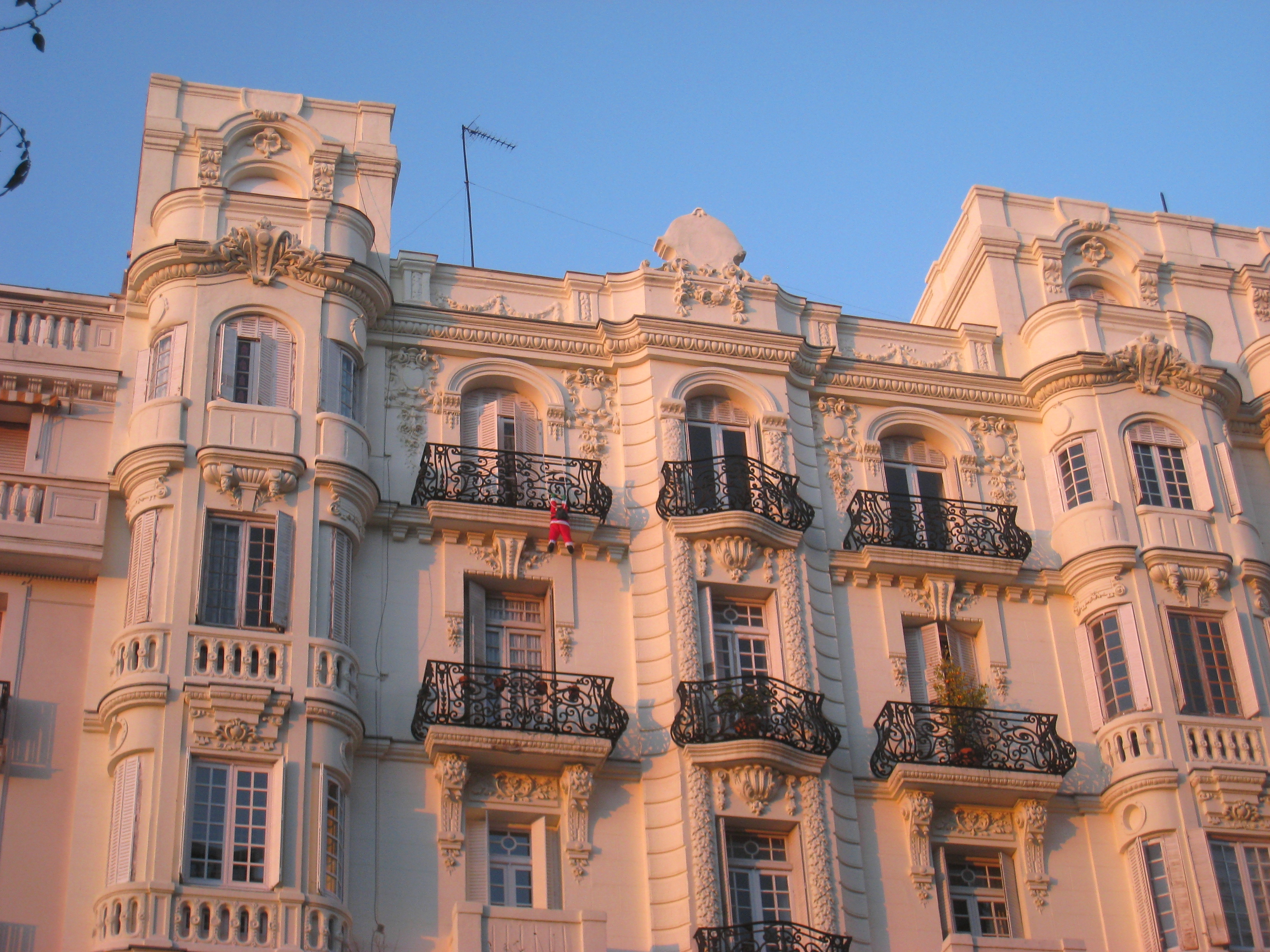 Miscellaneous facades in Madrid, Spain - with Santa. I took this photograph.